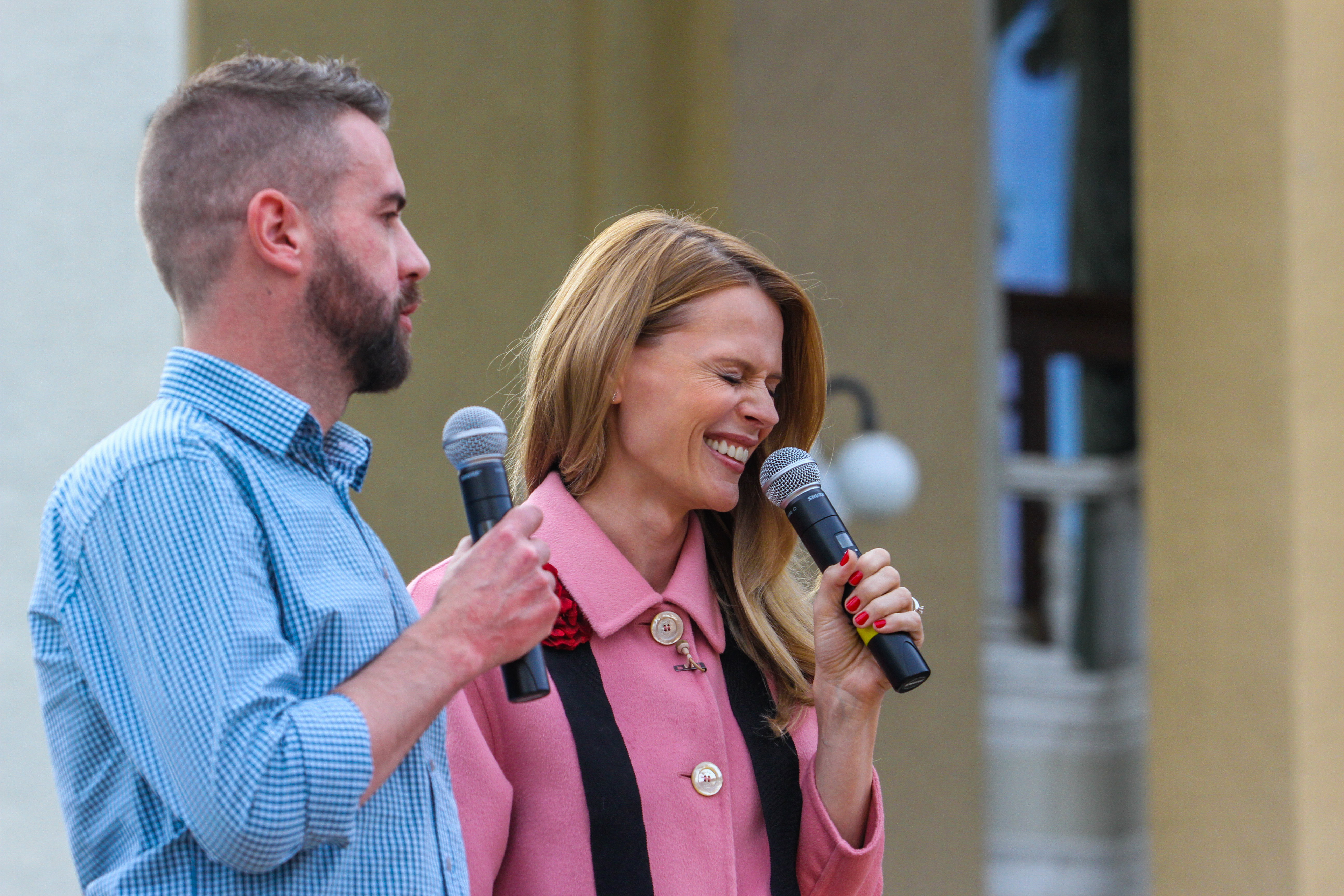 Ukrainian presenter, journalist and model Olga Freimut (on the right) during a meeting with residents of the city October 1, 2016